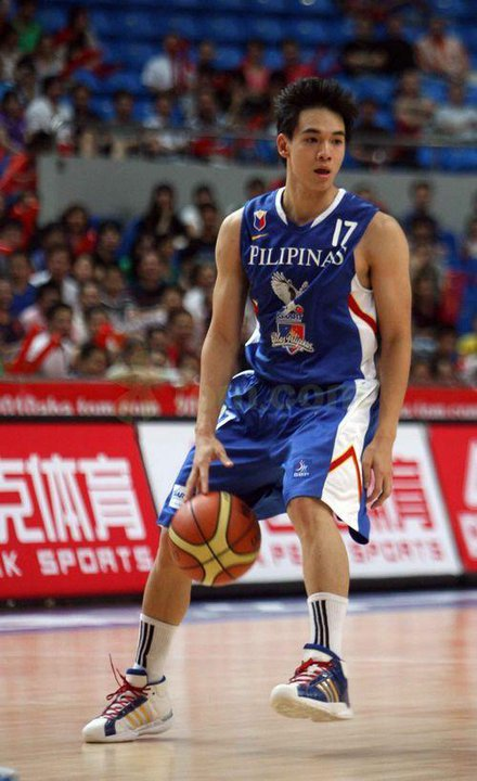 Chris Tiu Gilas Pilipinas